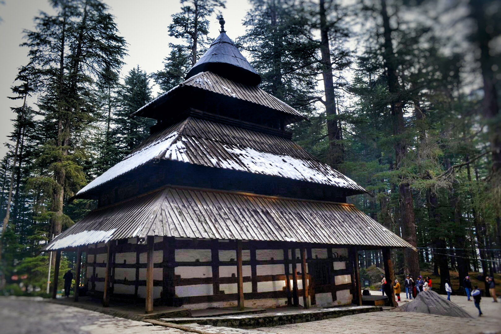 Located in Manali,Himachal Pradesh in north india.The temple is surrounded by cedar forest.The santuary is built over a huge rock which was worshipped as a image of deity.The structure was built in 1553.